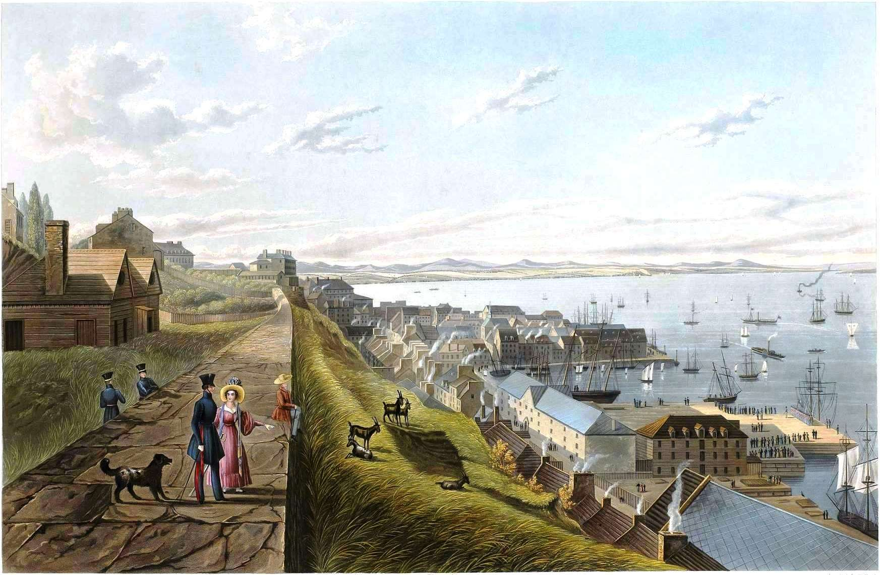 The Lower City of Quebec, from the Parapet of the Upper City